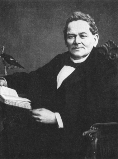 Painting of Hermann Schlegel (1804-1884) by Johan Neuman (1819-1898), located at Museum Naturalis (Leiden, NL), 2015